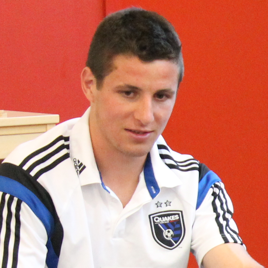 San Jose Earthquakes player J.J. Koval reads to children at a San Jose Public Library event.